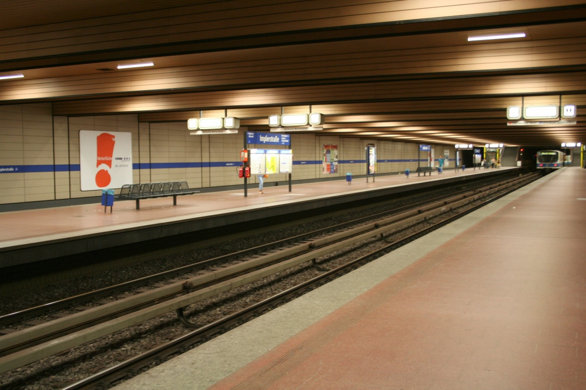 Munich subway station Implerstraße